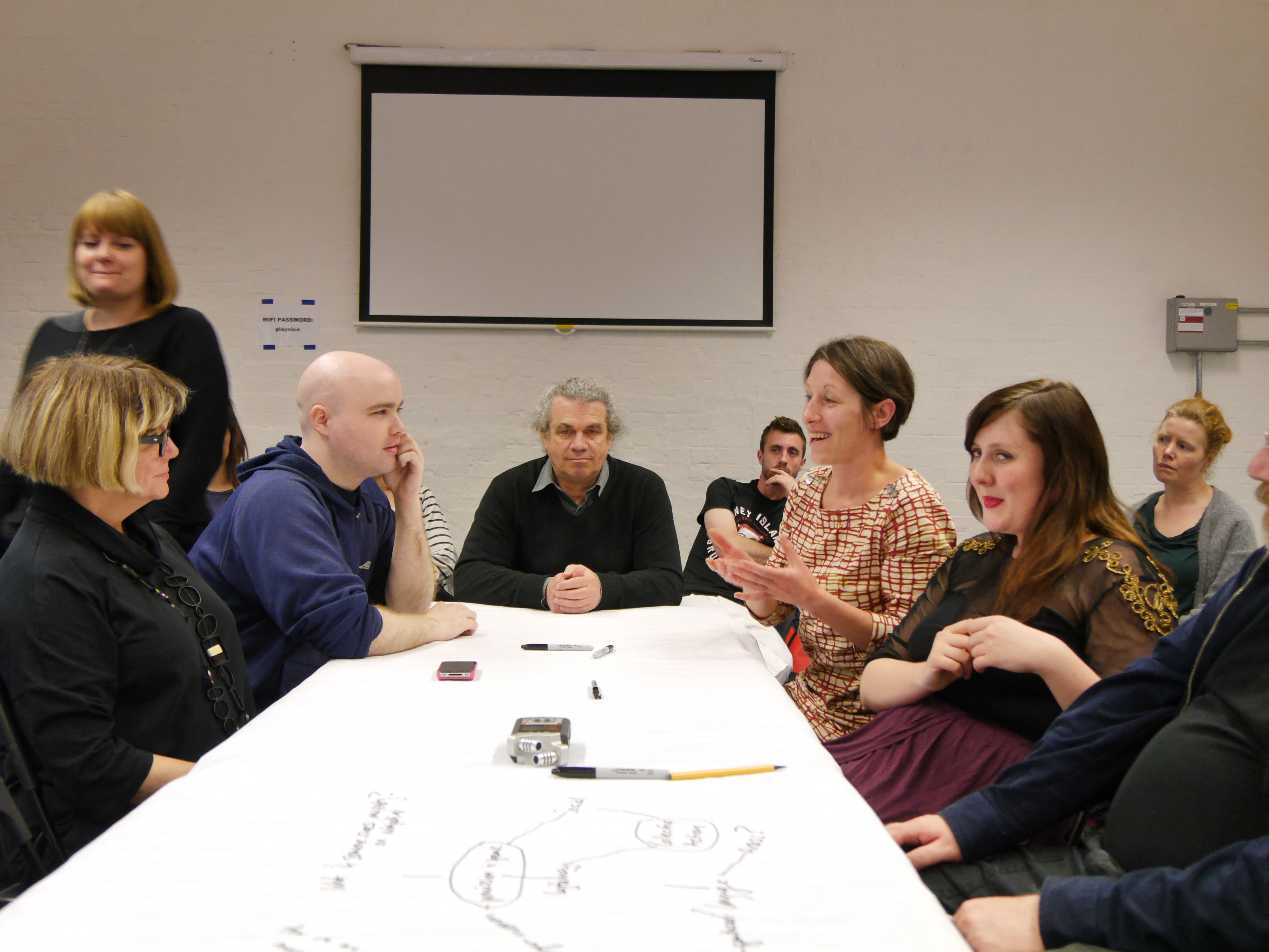 Long Table on Live Art and Feminism with Lois Weaver, 25 April 2014